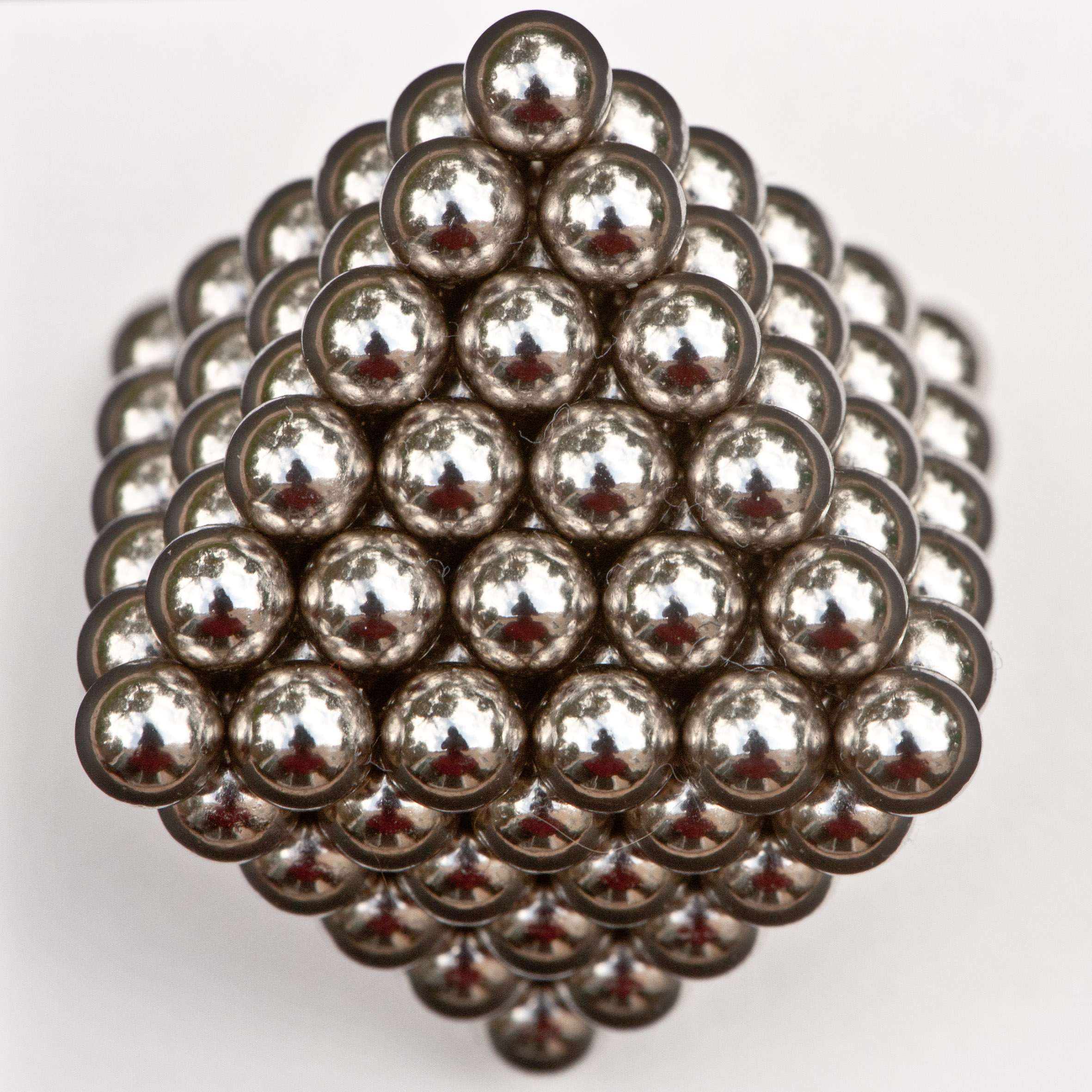 A photograph of 146 magnetic balls, packed to represent an octahedral number.